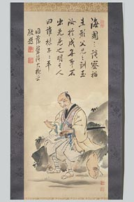 HAYASHI Shihei,Japanese military scholar and a retainer in 18th century